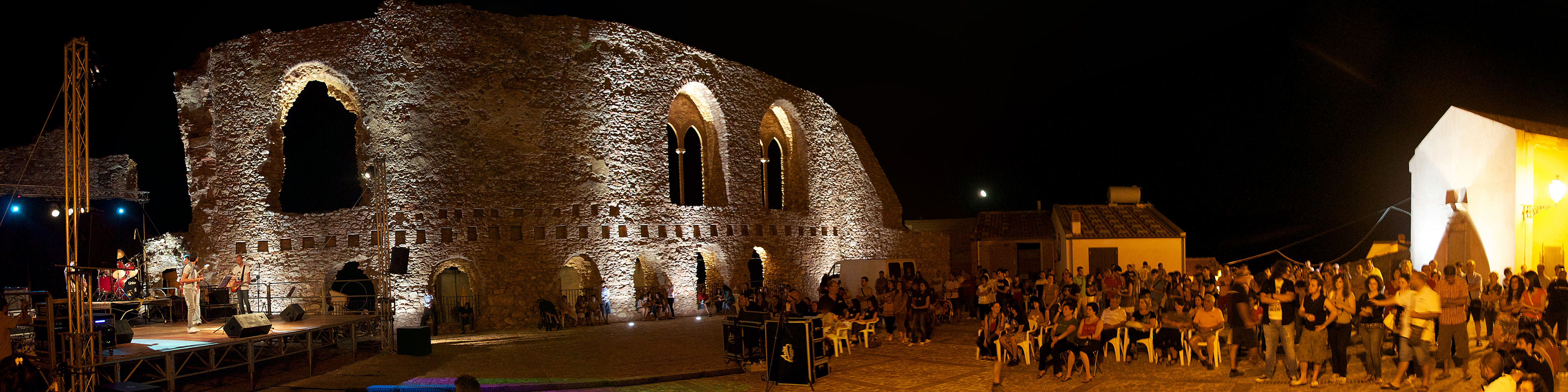 Castel ruins of the Norman castle present on the top of the town. This picture is taken during a public music show.